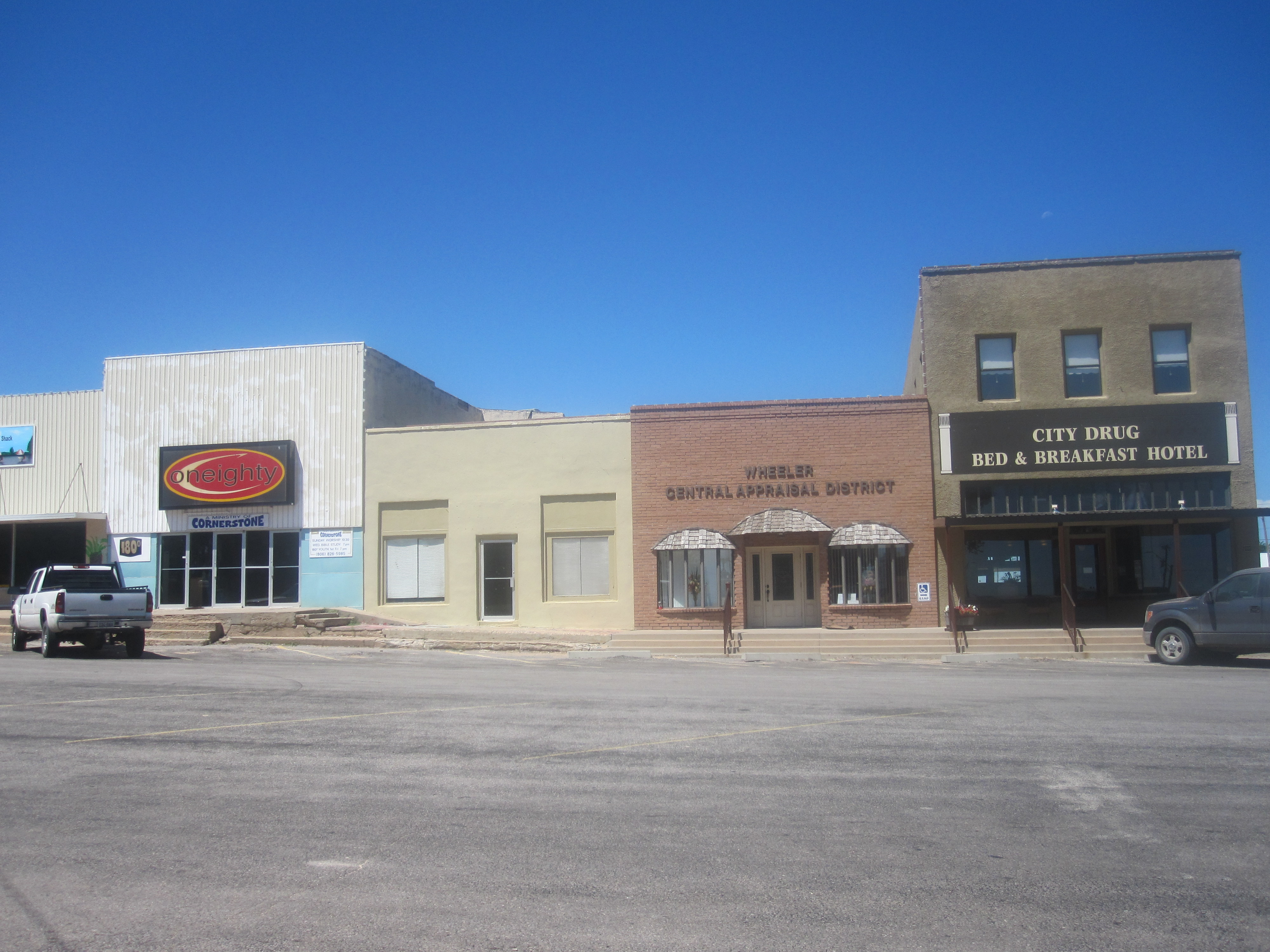 I took photo with Canon camera in Wheeler, TX.